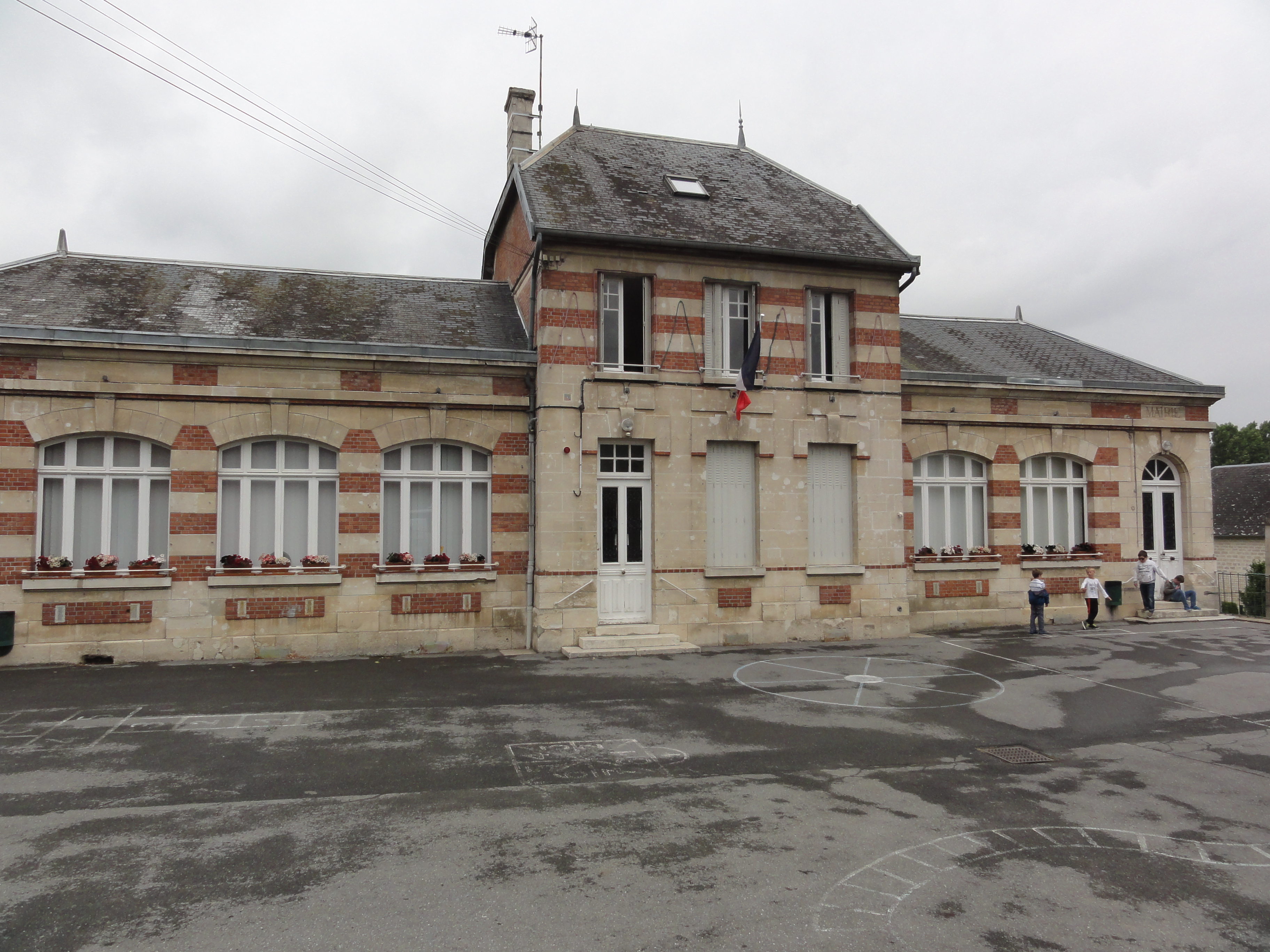 Crécy-au-Mont (Aisne) mairie-école